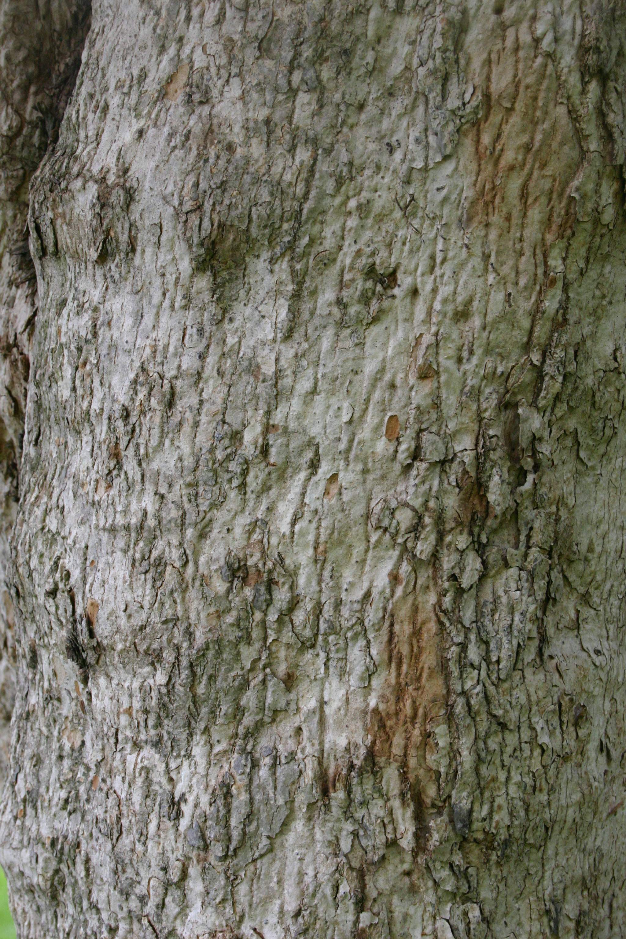 Olinia emarginata Thunb., trunk & bark, Ruimsig Botanical Garden (Walter Sisulu Garden), Gauteng, South Africa